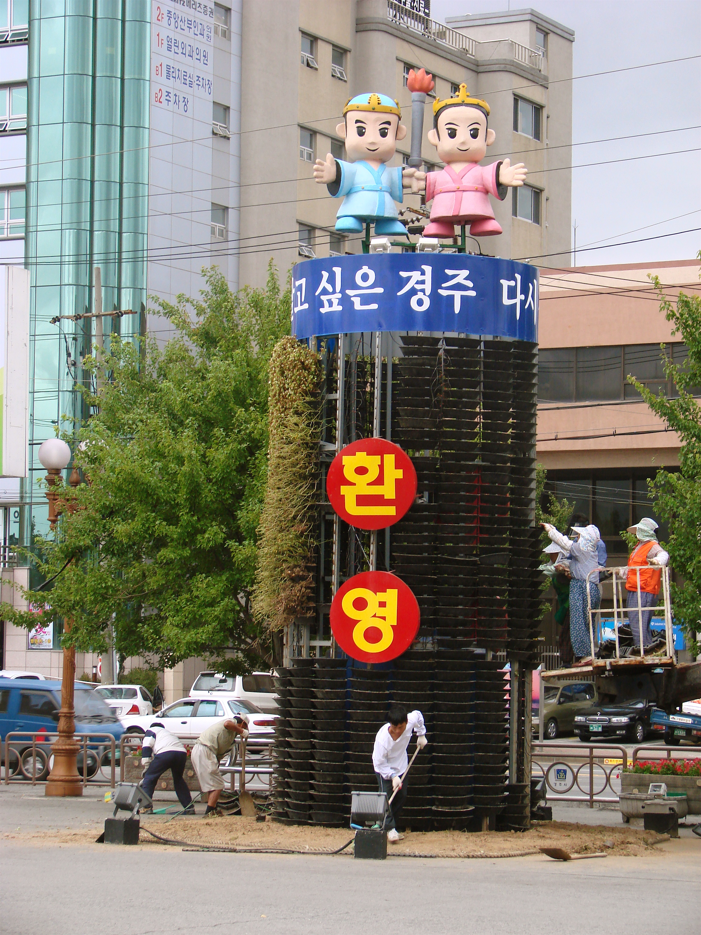 Gyeongju City's characters, Gwan-i, Geum-i.